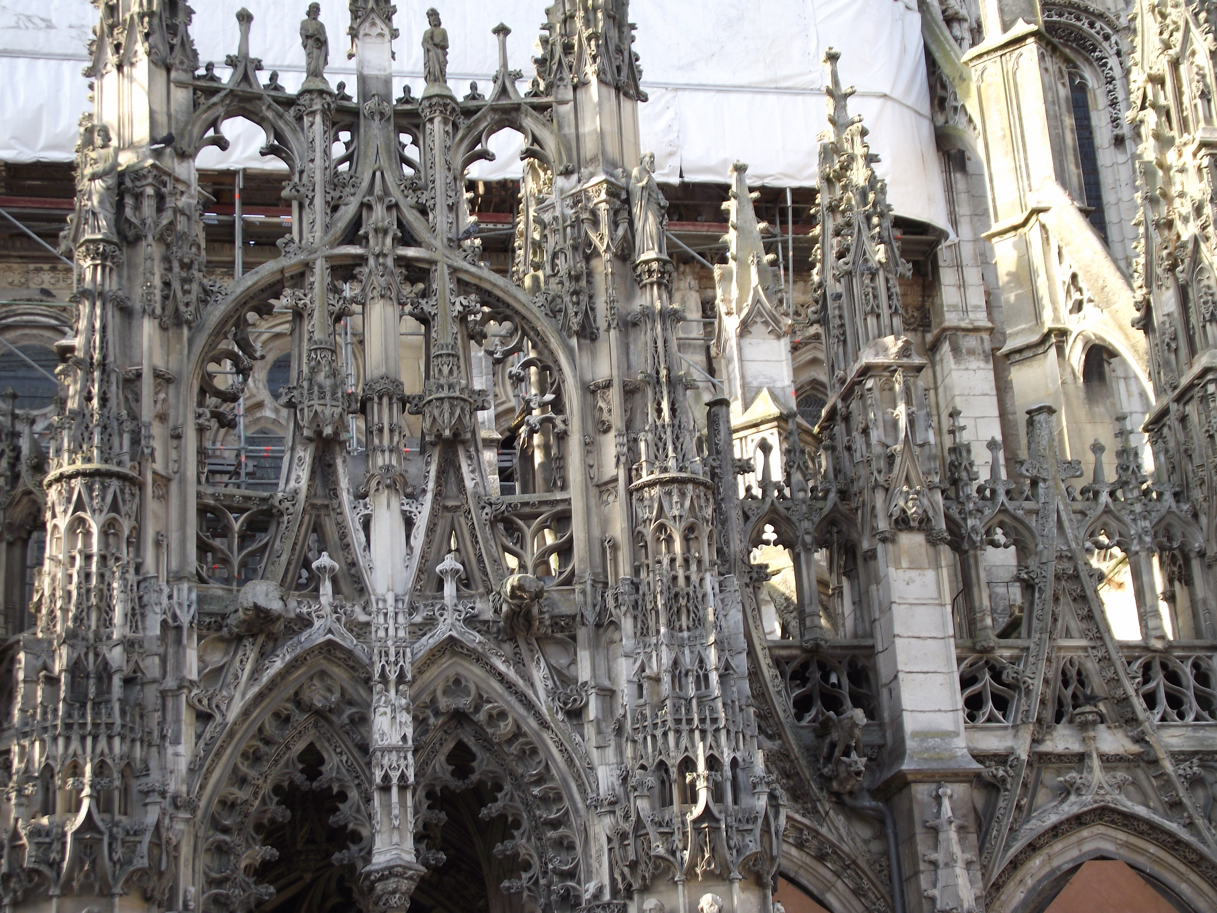 Louviers, Church of Our Lady, XI-XIII Century